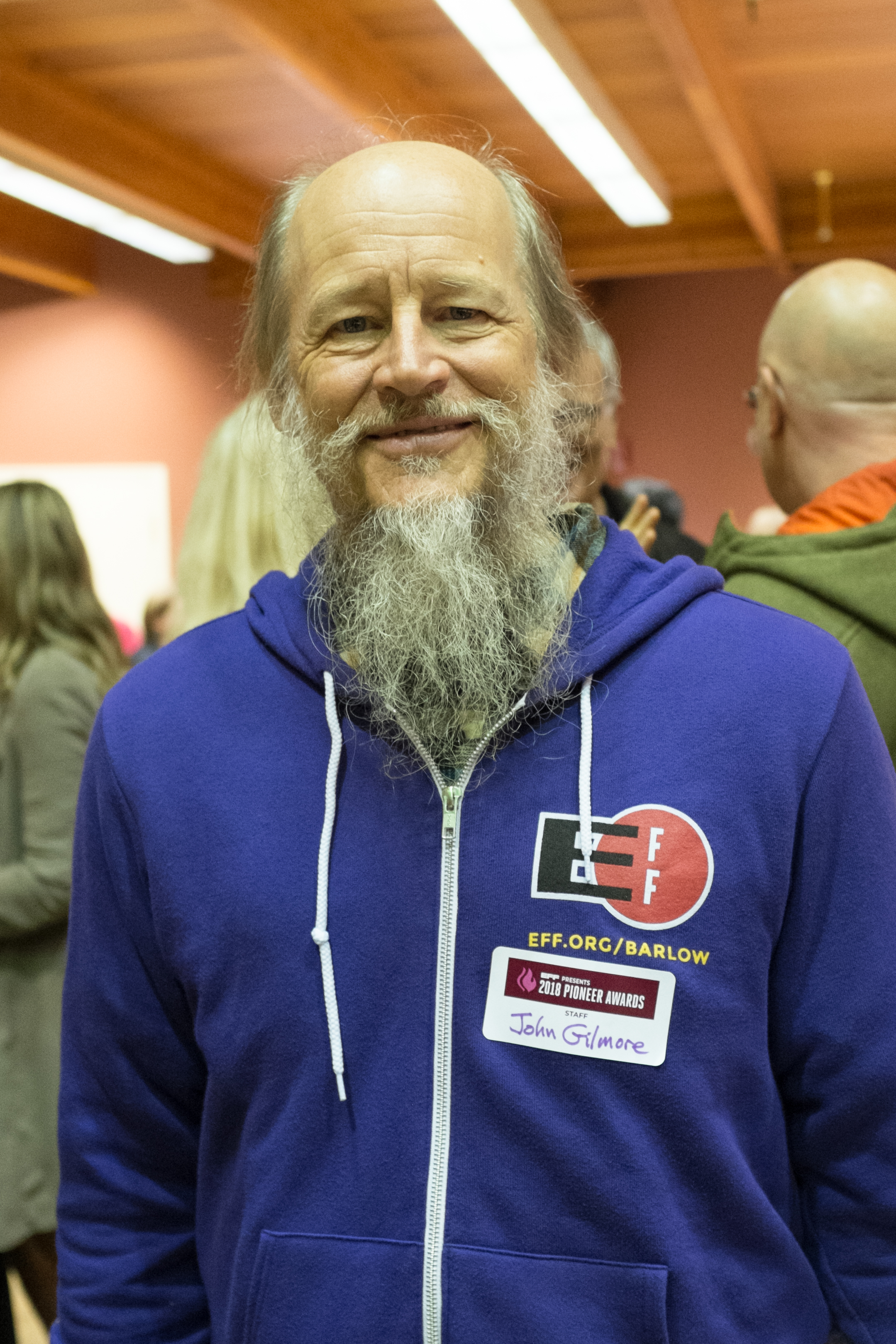 Taken at EFF Pioneer award event